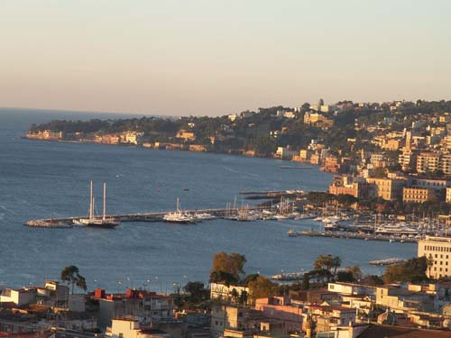 Personal photo.